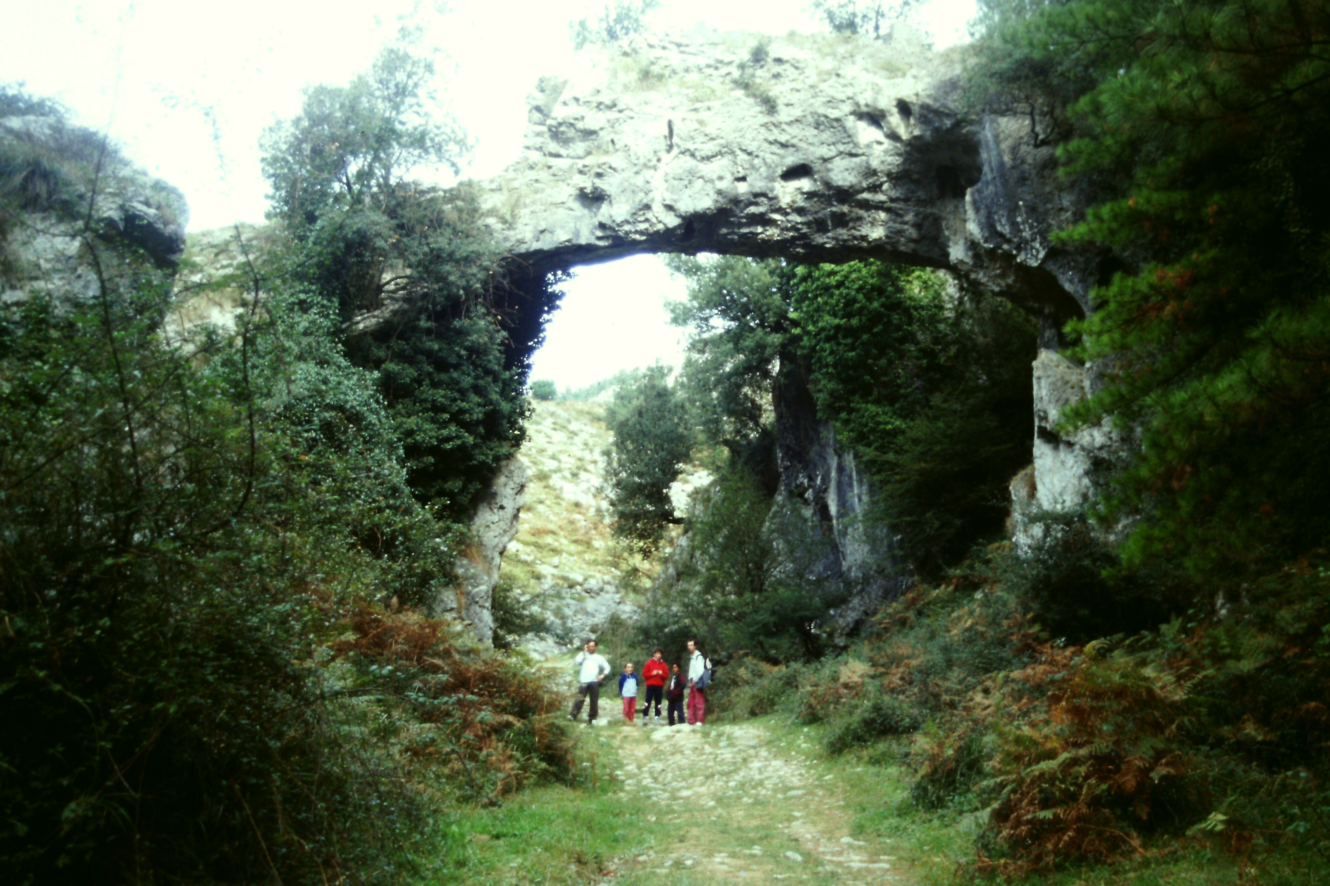 Natural bridge in Dima (Bizkaia)